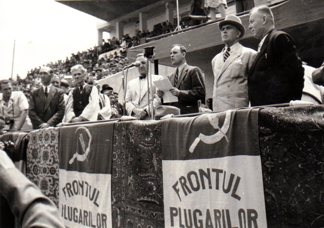 Ploughmen's Front Congress, ANEF Stadium, Bucharest. From right: Romulus Zăroni, Petru Groza, Gheorghe Gheorghiu-Dej (speaking), Mihai Ralea, Miron Bele.